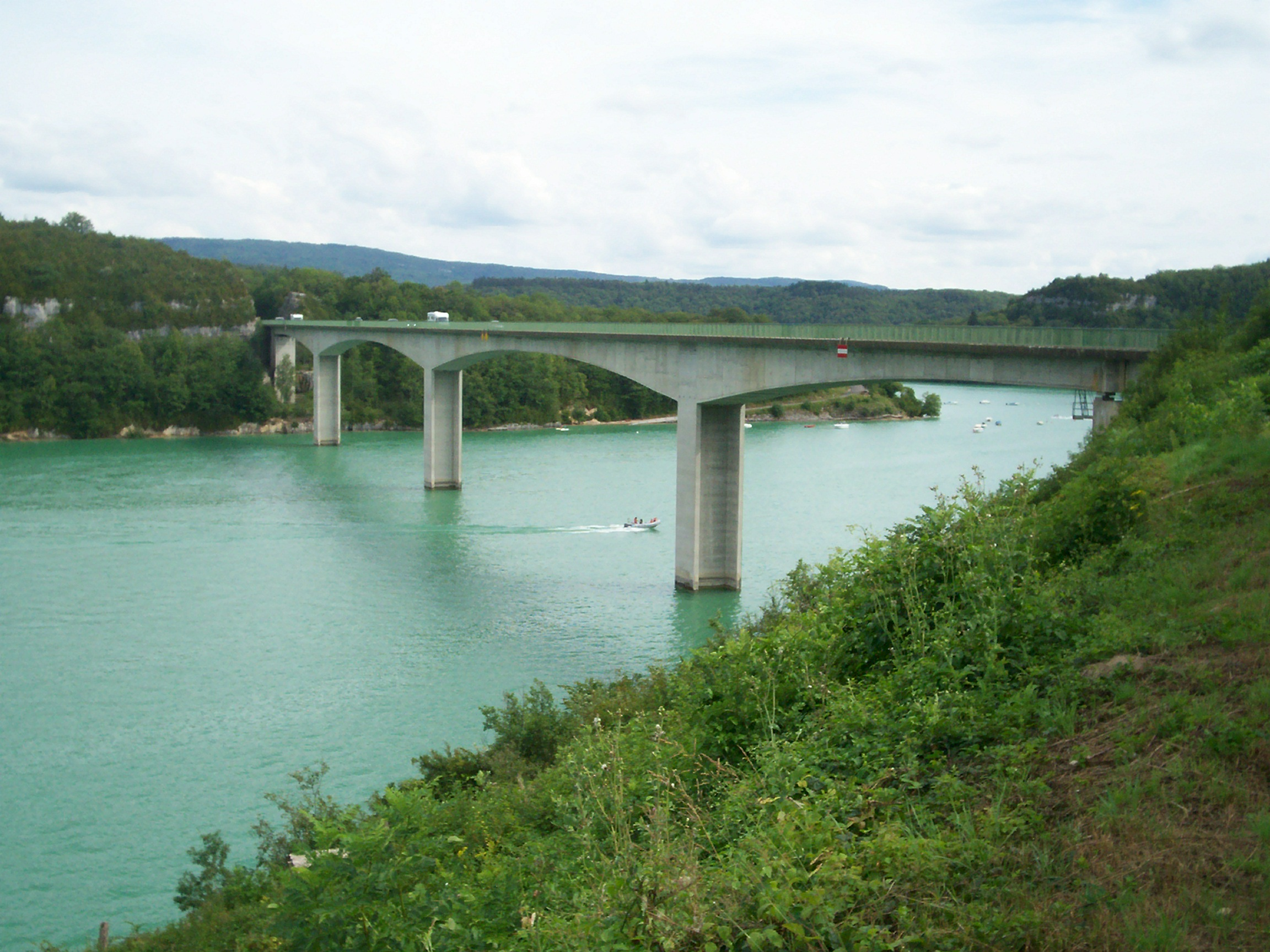 Pont de la Pyle view from point of view of Auberge du Surchauffant (Jura, France).